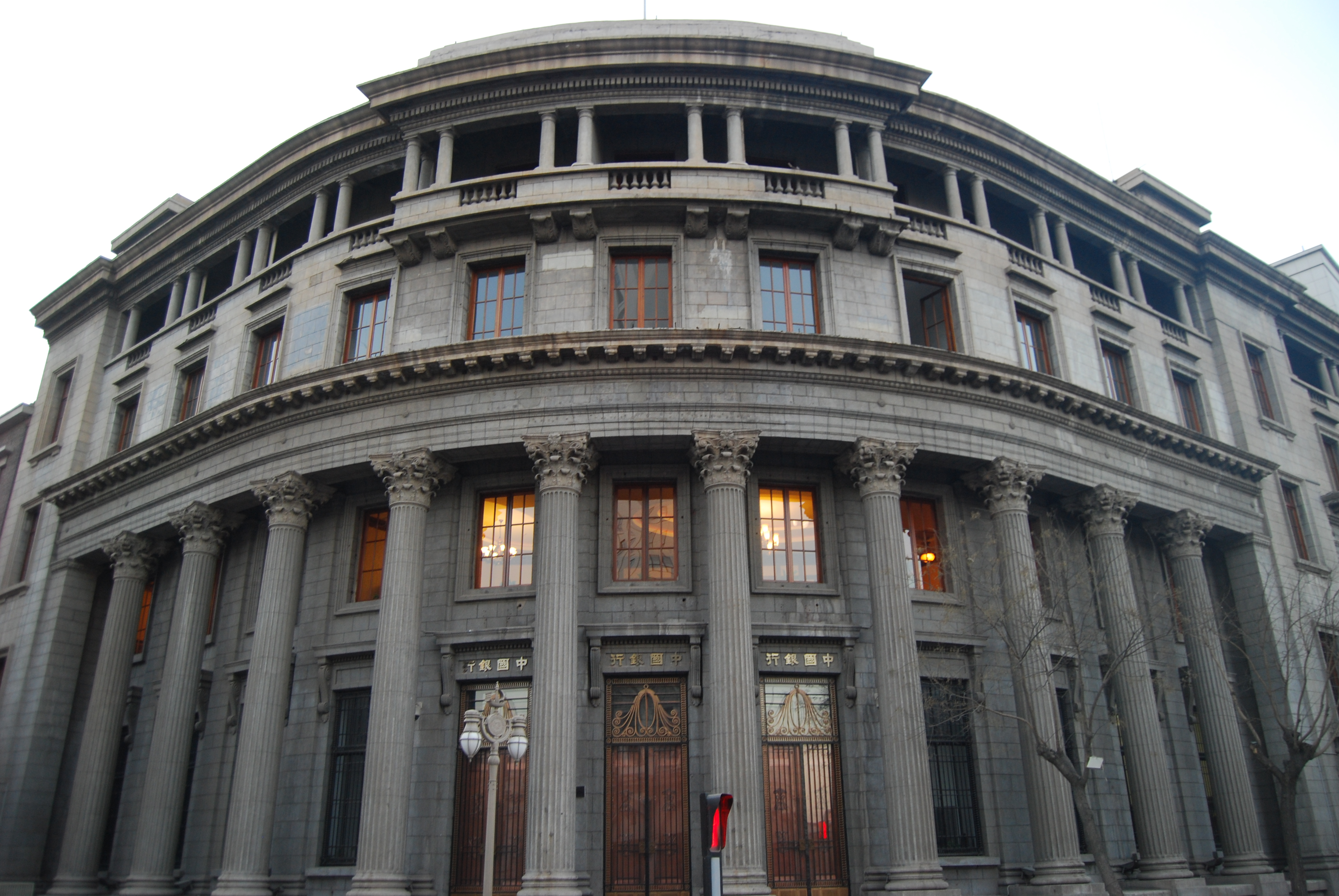 Former Frennch Chinese Bank in Jiefangbei Lu No. 74–78, Heping District Bân-lâm-gú: Thian-tin Kái-hòng-pak-lōo